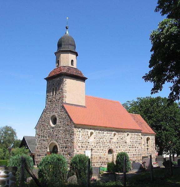 Stone church Grubo, built at the first third of the13th century. The village Grubo is a part of the municipality Wiesenburg/Mark in the district Potsdam Mittelmark, state Brandenburg, Germany. Wiesenburg appertains to the natural preserve Naturpark Hoher Fläming.